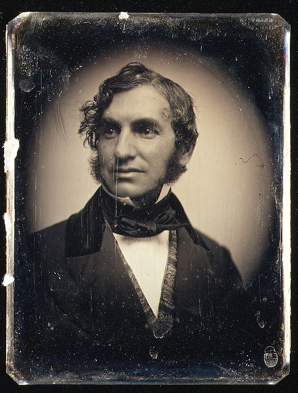 daguerreotype of Henry Wadsworth Longfellow